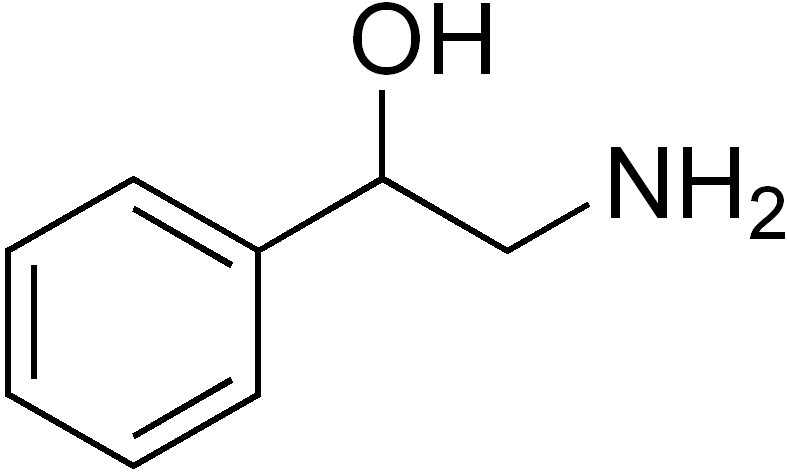 chemical structure of 2-Hydroxyphenethylamine